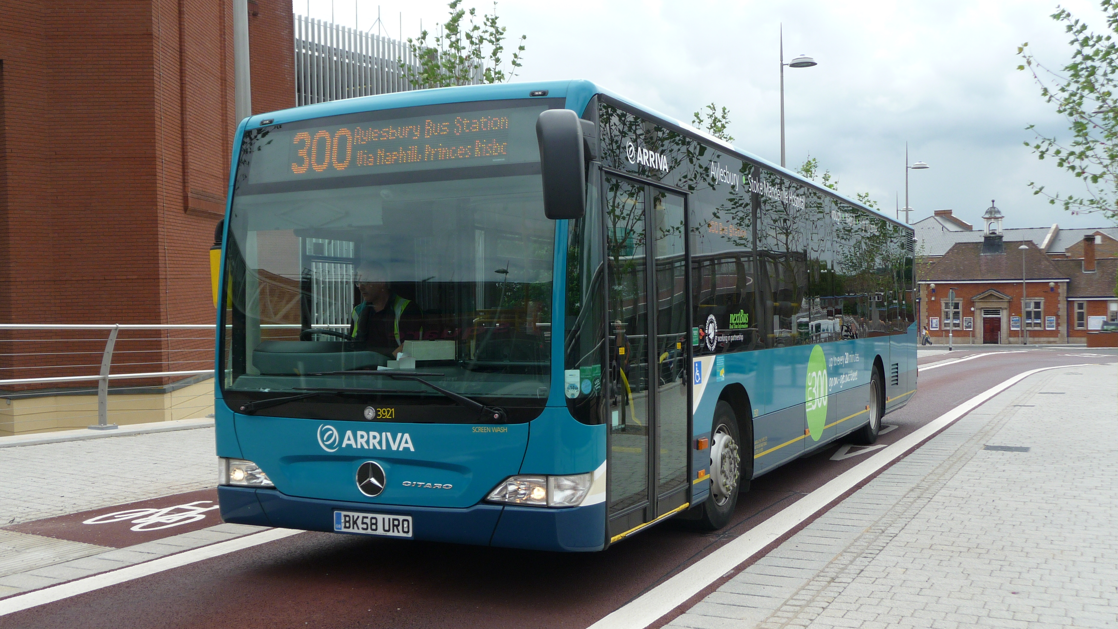 Arriva The Shires 3921 (BK58 URO), a Mercedes-Benz Citaro, in Station Way, waiting for the traffic signals to change to let it cross Friarage Road into Great Western Street bus station, Aylesbury, Buckinghamshire, on route 300. Aylesbury depot operate into High Wycombe on route 300 with a batch of these Citaros.